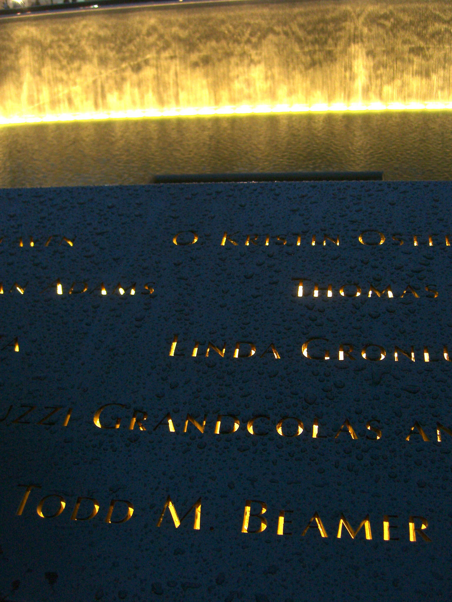 The name of Todd Beamer is seen among those of other 9/11 victims from United Airlines Flight 93 inscribed on bronze panel S-68 of the South Pool of the National September 11 Memorial in Manhattan, on December 6, 2011. This photo was created by Luigi Novi. If you have any questions, you can contact me by sending me an email or User talk:Nightscream